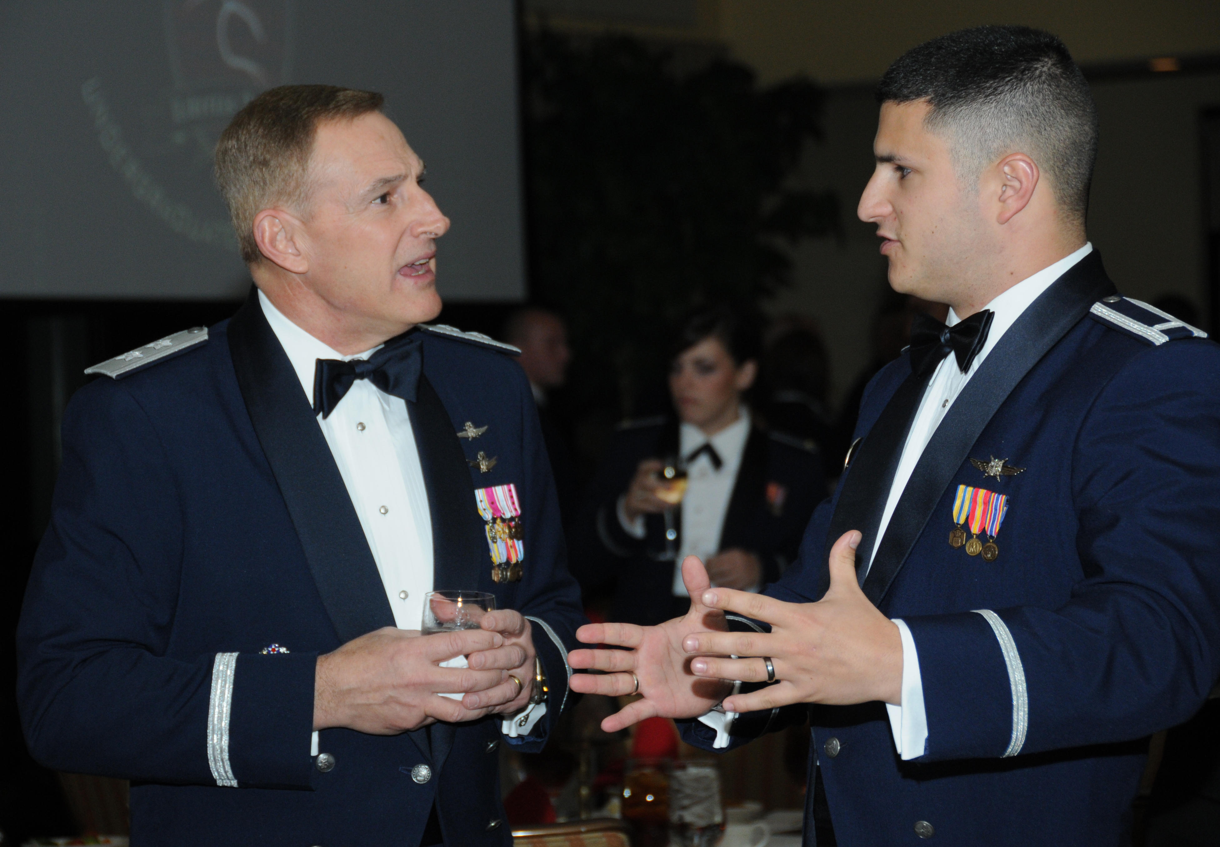 Maj. Gen. Michael Basla, left, speaks with 1st Lt. Christian Ford Dec. 6, 2010, at a dinner honoring the Air Force's first undergraduate cyberspace training graduates at Keesler Air Force Base, Miss.